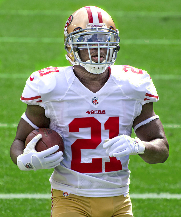 San Francisco 49ers vs. Green Bay Packers at Lambeau Field on September 9, 2012. Photo by Mike Morbeck.